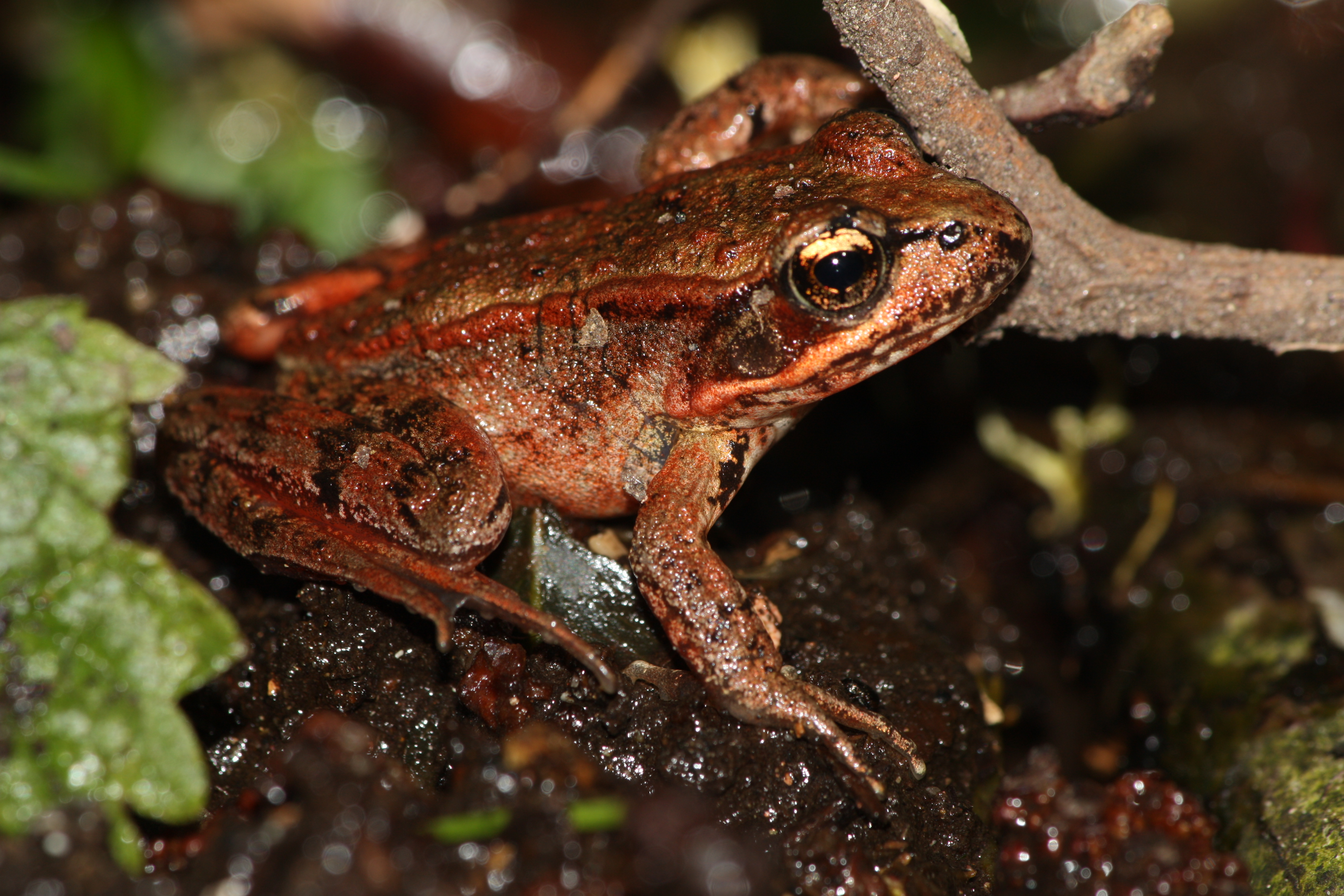 Red-legged Frog, Northern Red-legged Frog (Baird and Girard, 1852; Hayes and Miyamoto, 1984; H.B. Shaffer et al., 2004